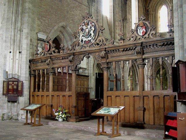 Screen, Dore Abbey, c.1633